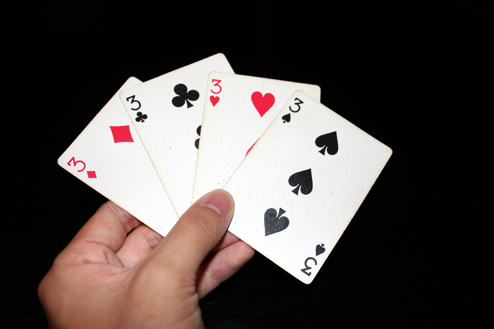 A hand holding the four 3's in a standard deck of cards: Diamonds, Clubs, Hearts, Spades.